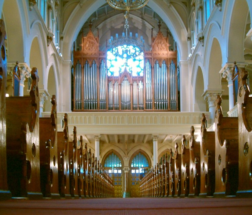 The St. John's Church in Helsinki, Finland. The medial passage and the organ.